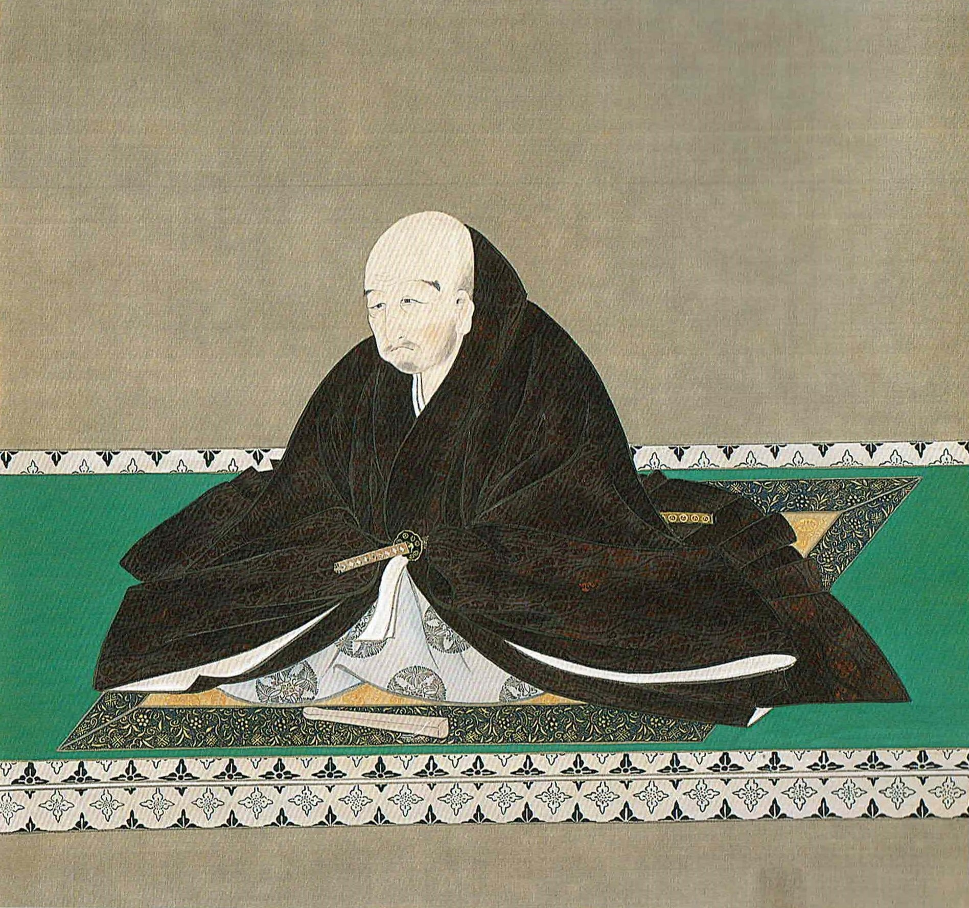 This file is the portrait of Harusada Tokugawa.